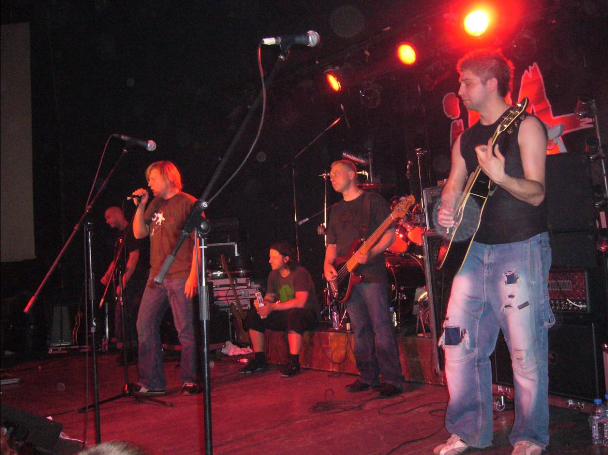 music group during concert, 2006 yr.